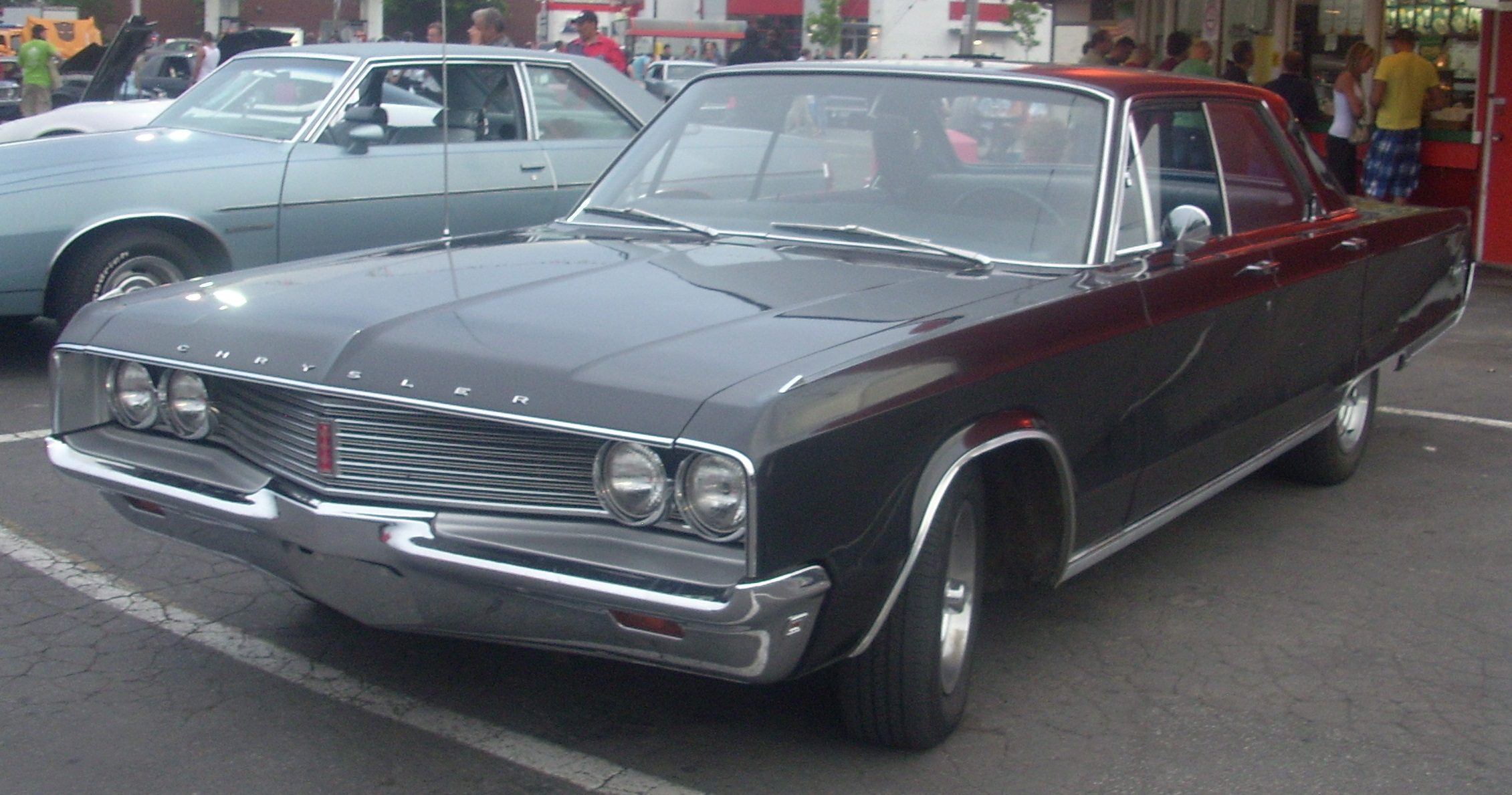 1968 Chrysler Newport Sedan photographed in Montreal, Quebec, Canada at Gibeau Orange Julep.